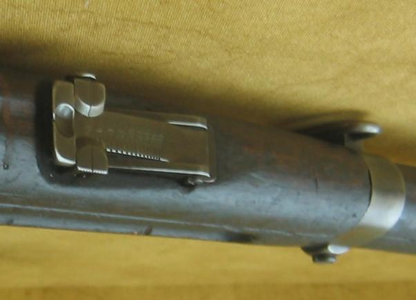 Mannlicher-Schönauer in Thessaloniki War museum